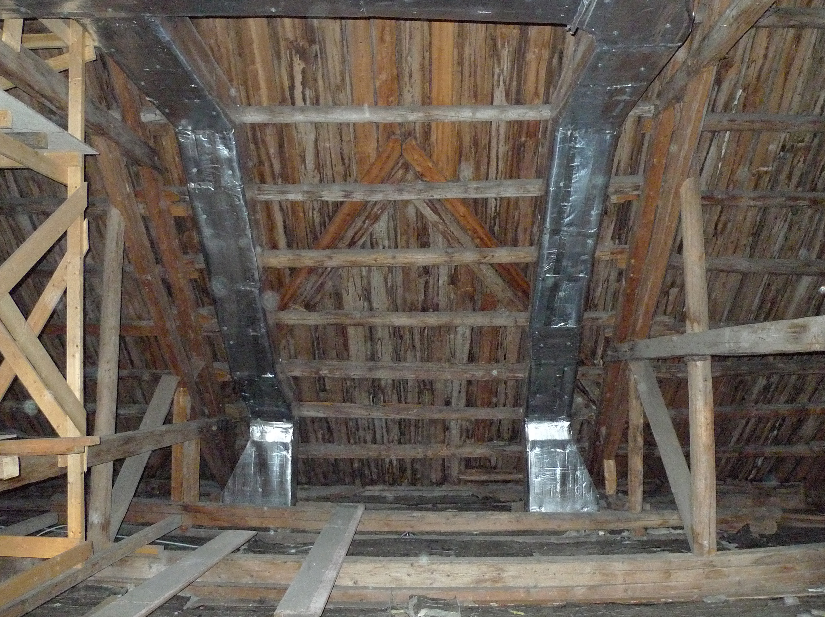 Lerchendal gård (manor), Trondheim, Norway. The inside of the roof, showing where the frontispiece once was.